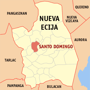 Map of Nueva Ecija showing the location of Santo Domingo